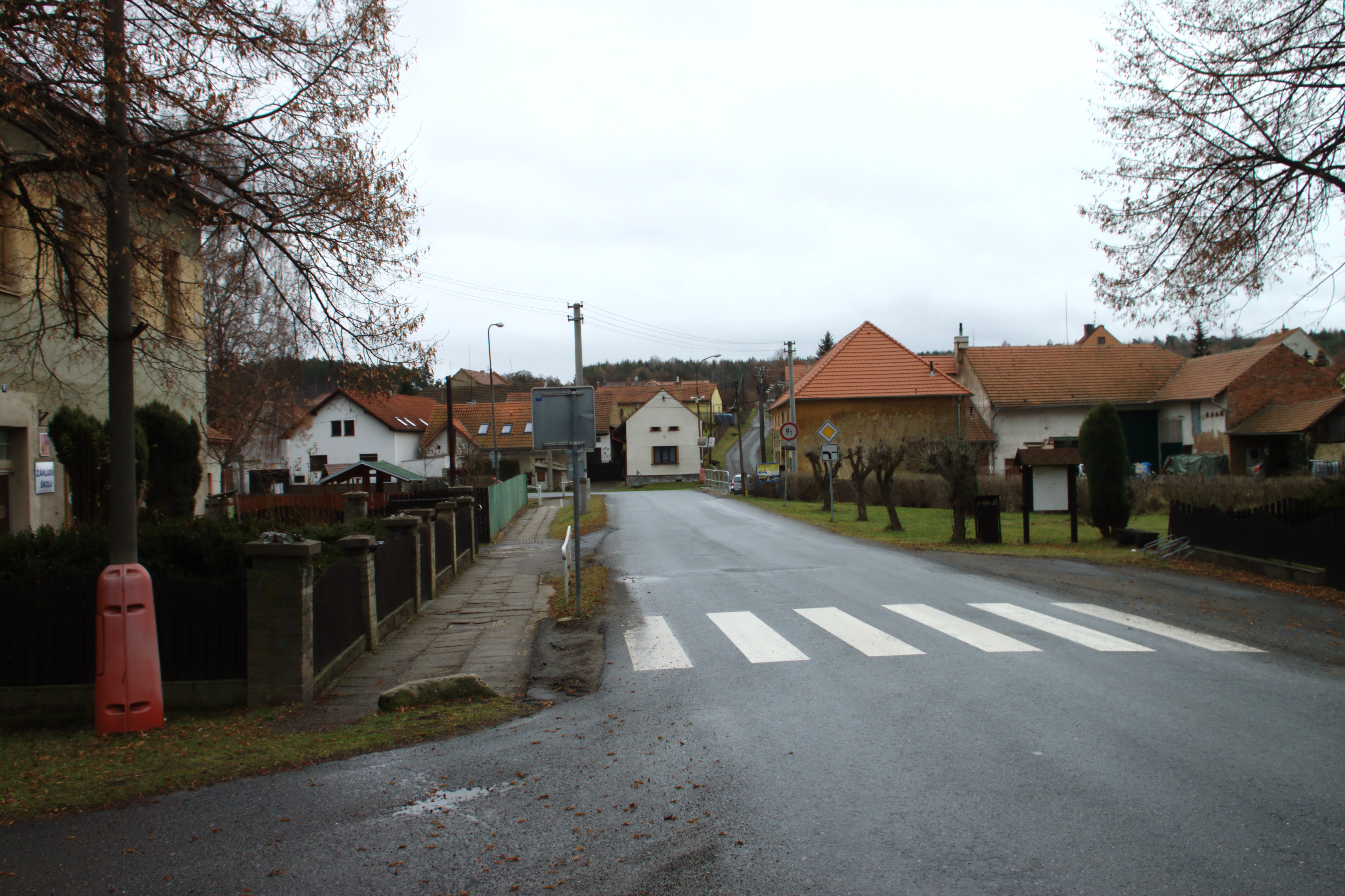 Central part of the town of Olešná, Central Bohemian Region, CZ